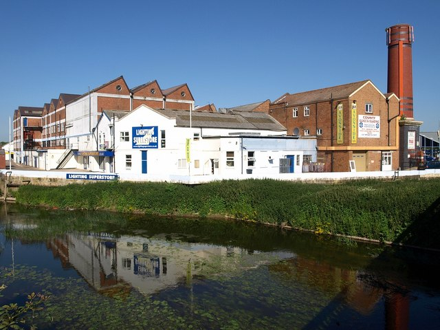 Avon Enterprise Park Trading Estate, Melksham The trading estate occupies the former premises of Wiltshire United Dairies. In 2002, Vodafone decided to use the old dye house chimney on the right for its mobile phone antennae; the chimney was originally much higher but was reduced to half or a third of its height (accounts vary) in the 1900s . Seen across the River Avon from Bath Road.